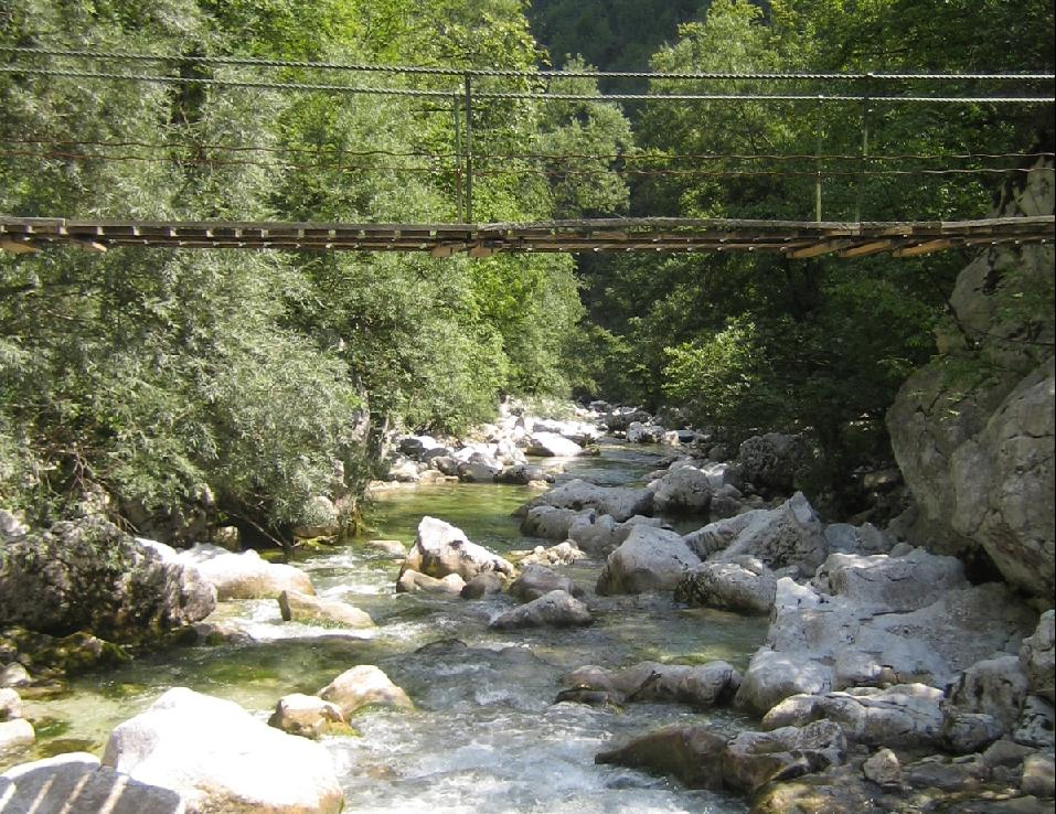 Idrijca river, Slovenija (runs through mining town Idrija) photo:Ziga 06:57, 12 August 2006 (UTC)